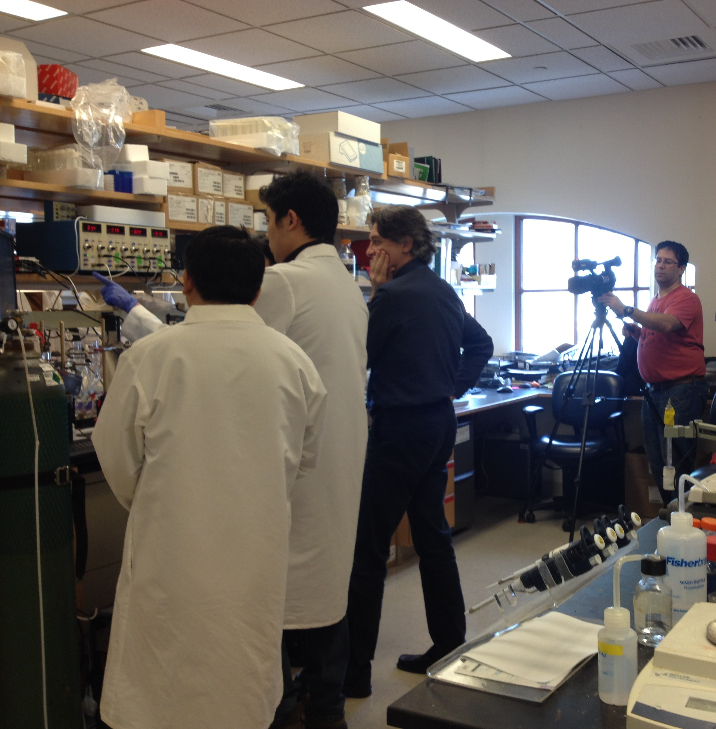 fasano nel suo laboratorio